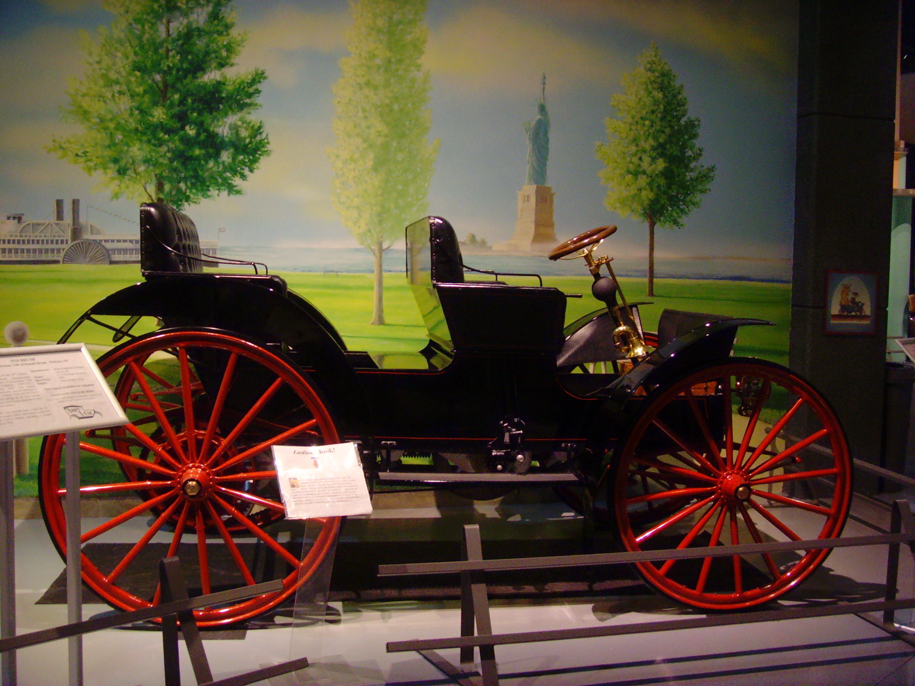 International Harvester (IHC) Auto-Buggy (1907); Hershey - Antique Automobile Club of America Museum